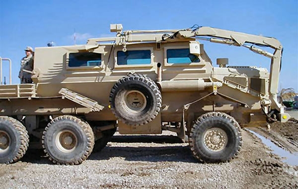 Buffalo mine protected clearance vehicle form the US engineers